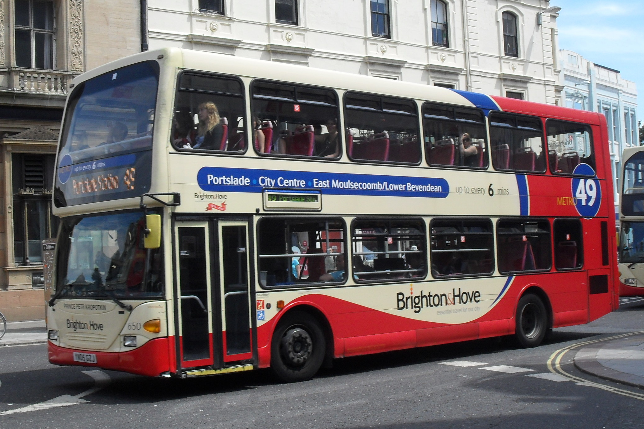 YN05 GZJ at North Street, Brighton